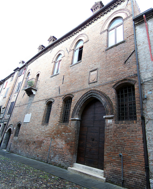 common photograph